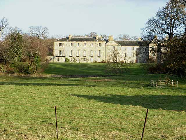 The Hirsel Originally a hirsel was an area of land over which a single shepherd could supervise a flock of sheep. Things have come on a long way since then. The main part of the big house was built between 1702 and 1714, and is the ancestral seat of the Home family; the most famous member of which was Sir Alec Douglas-Home, British prime minister 1963-4. After retiring as prime minister, Sir Alec was created a life peer with the title Lord Home of the Hirsel. A statue of Sir Alec stands at the entrance to the park.